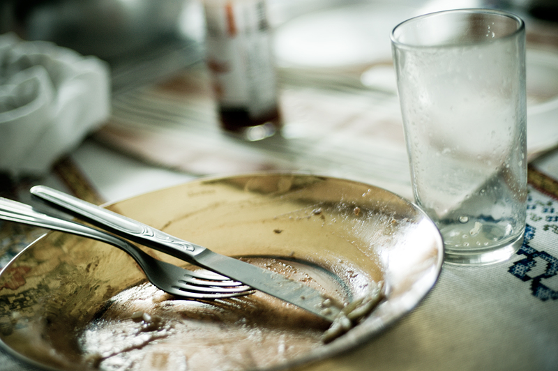 Used cutlery: a plate, a fork and knife, and a drinking glass.